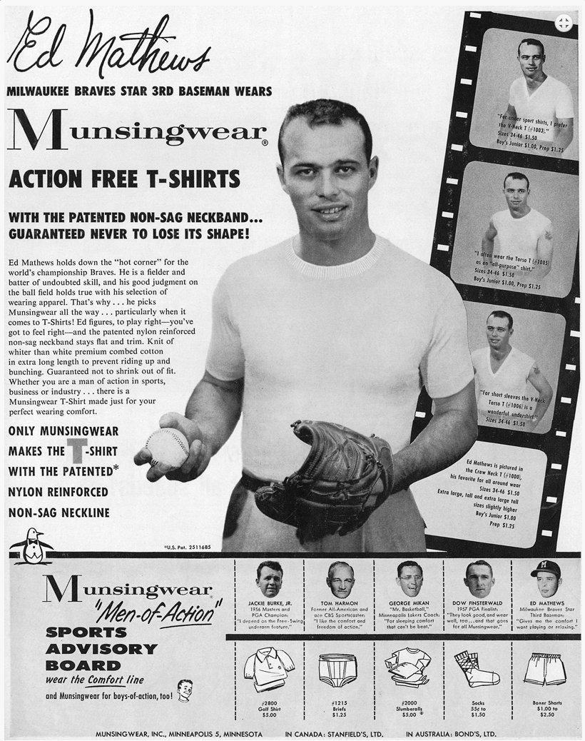 Munsingwear ad from Life Magazine, 1958. Shows baseball player Ed Mathews.